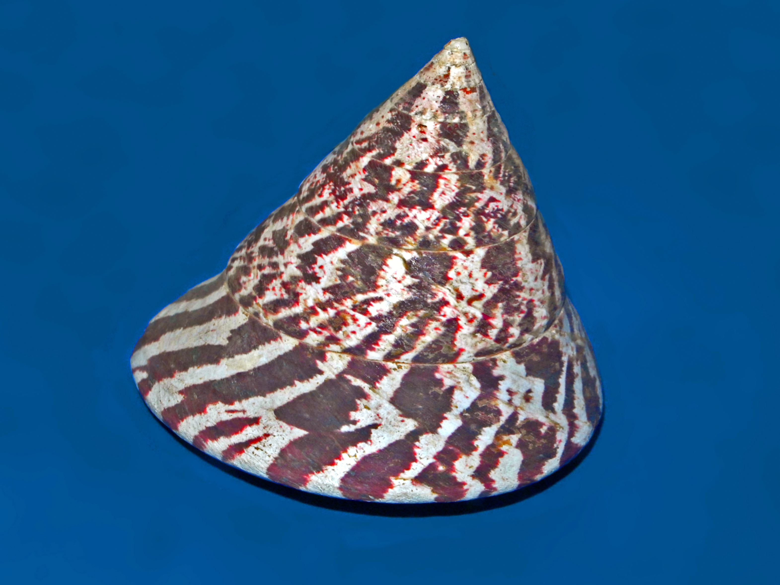 A shell of of Tectus niloticus on display at the Museo Civico di Storia Naturale di Milano